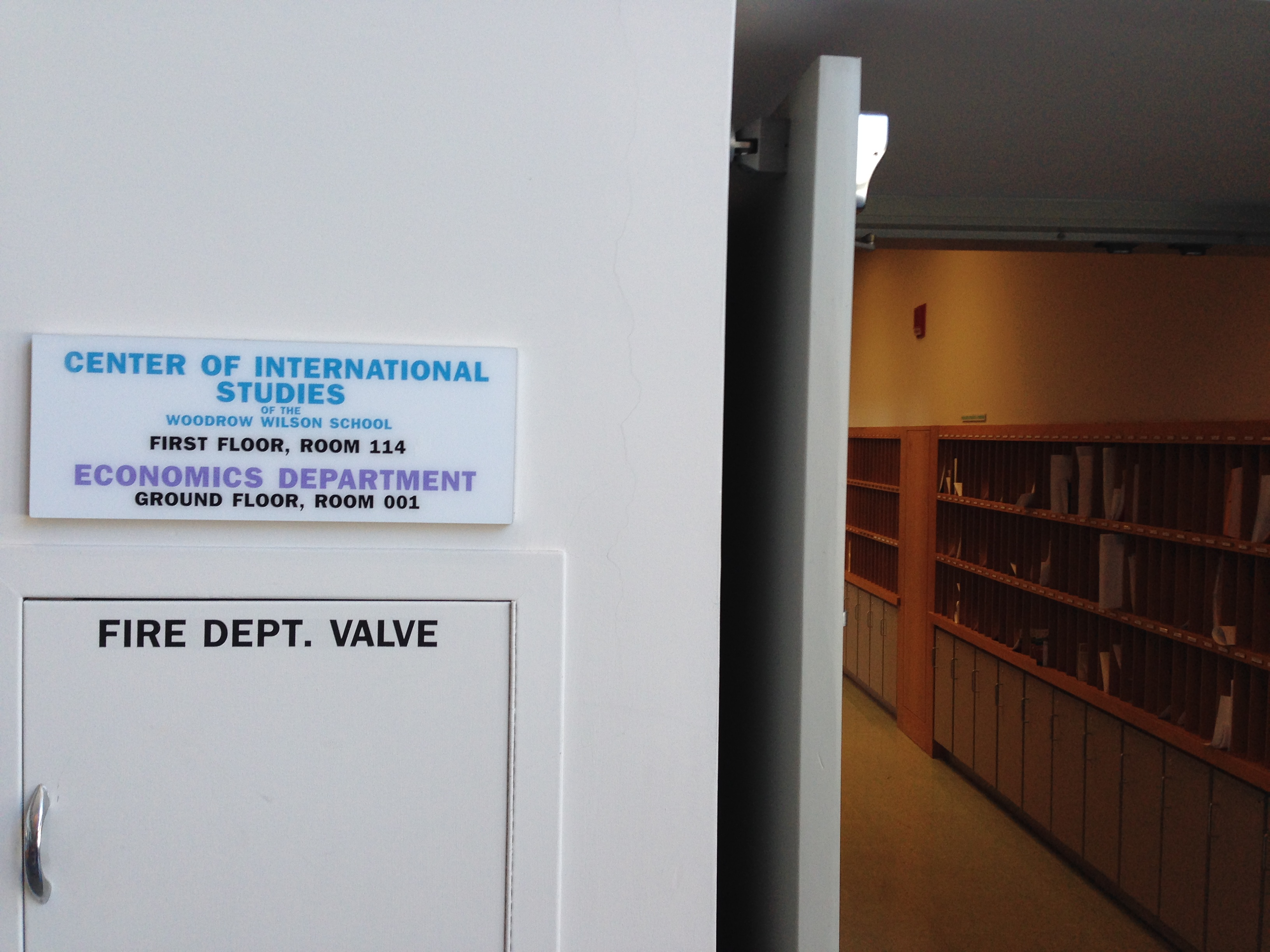 A sign for the Center of International Studies, as seen in 2014 on the first floor of Bendheim Hall, Princeton University, Princeton, New Jersey. In actuality, the center was merged into a different institution in 2003 and that institution is located in a different building.